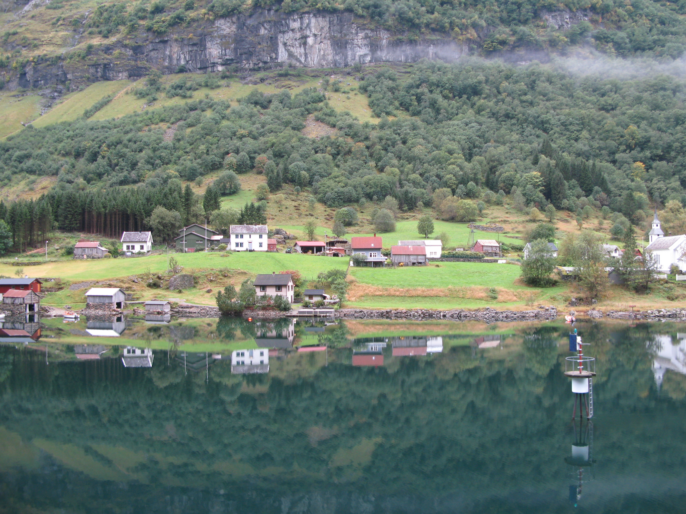 Village Bakka by Nærøyfjorden. The houses in the center of the image belong to "Sagentunet", a listed cultural heritage farm.